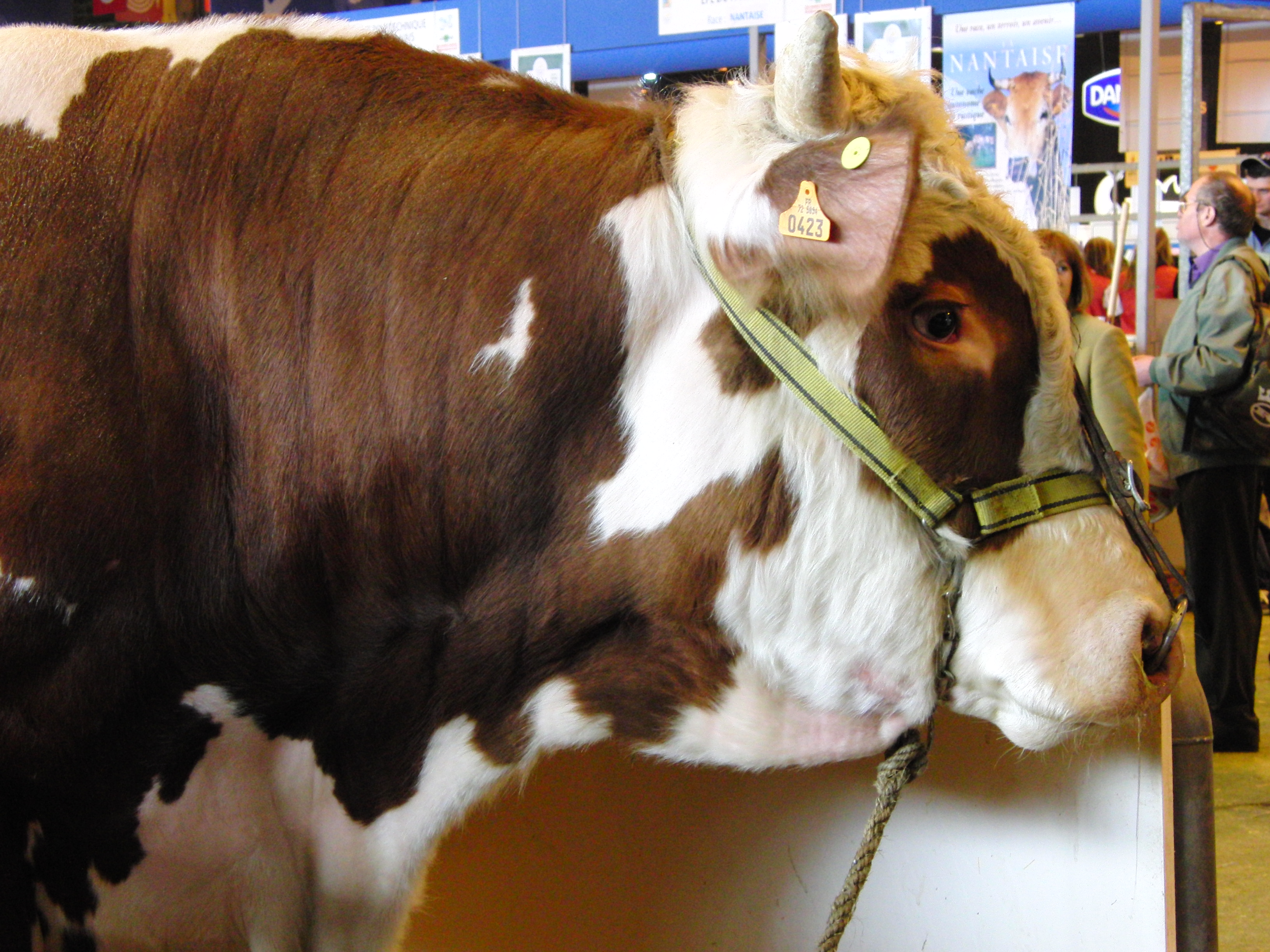 Saosnoise bull - Paris International Agricultural Show 2012, Paris, France